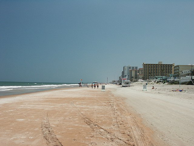 The beach at Daytona Beach, Florida. The beach was part of the Daytona Beach Road Course, and the site of numerous Land Speed Records